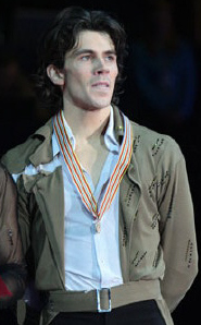 Sinead KERR & John KERR on the podium at the 2009 European Figure Skating Championships